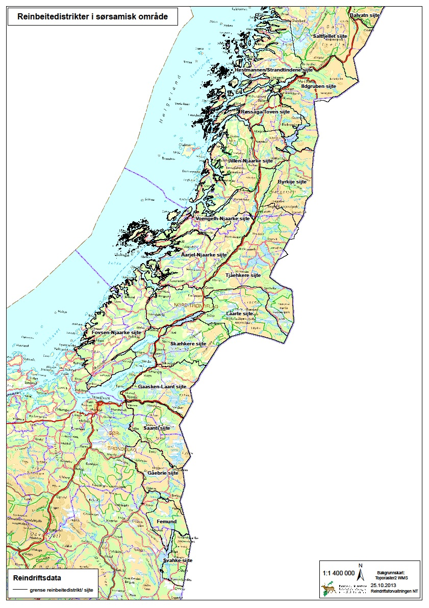 Map of Nordland, Nord-Trøndelag and Sør-Trøndelag in Norway showing the borders between the southern sami Siida (reindeer herding districts)